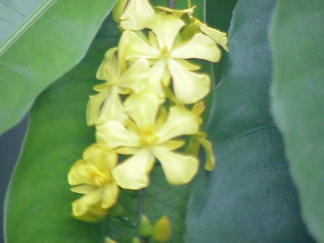 Species: Campylospermum schoenleinianum (= Ouratea schoenleiniana) Family: Ochnaceae Image No. 5